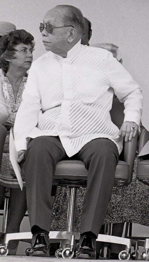 Foreign Minister of the Philippines, Carlos P. Romulo during the Clark Air Force Base turnover ceremonies